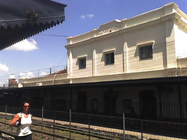 Merlo railway station, Merlo Partido, Buenos Aires Province, Argentina.